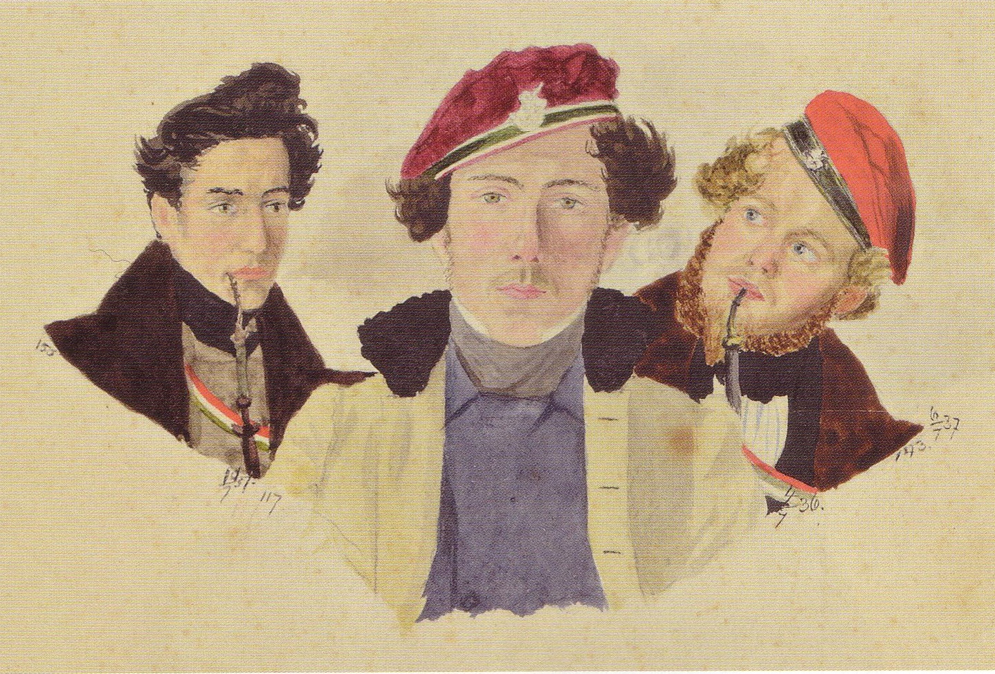 Portrait drawings in Album Amicorum by Wilhelm Schmiedeberg showing Blücher Weiß (left), Gustav Lastig (center) and Heinrich Weiß (right)